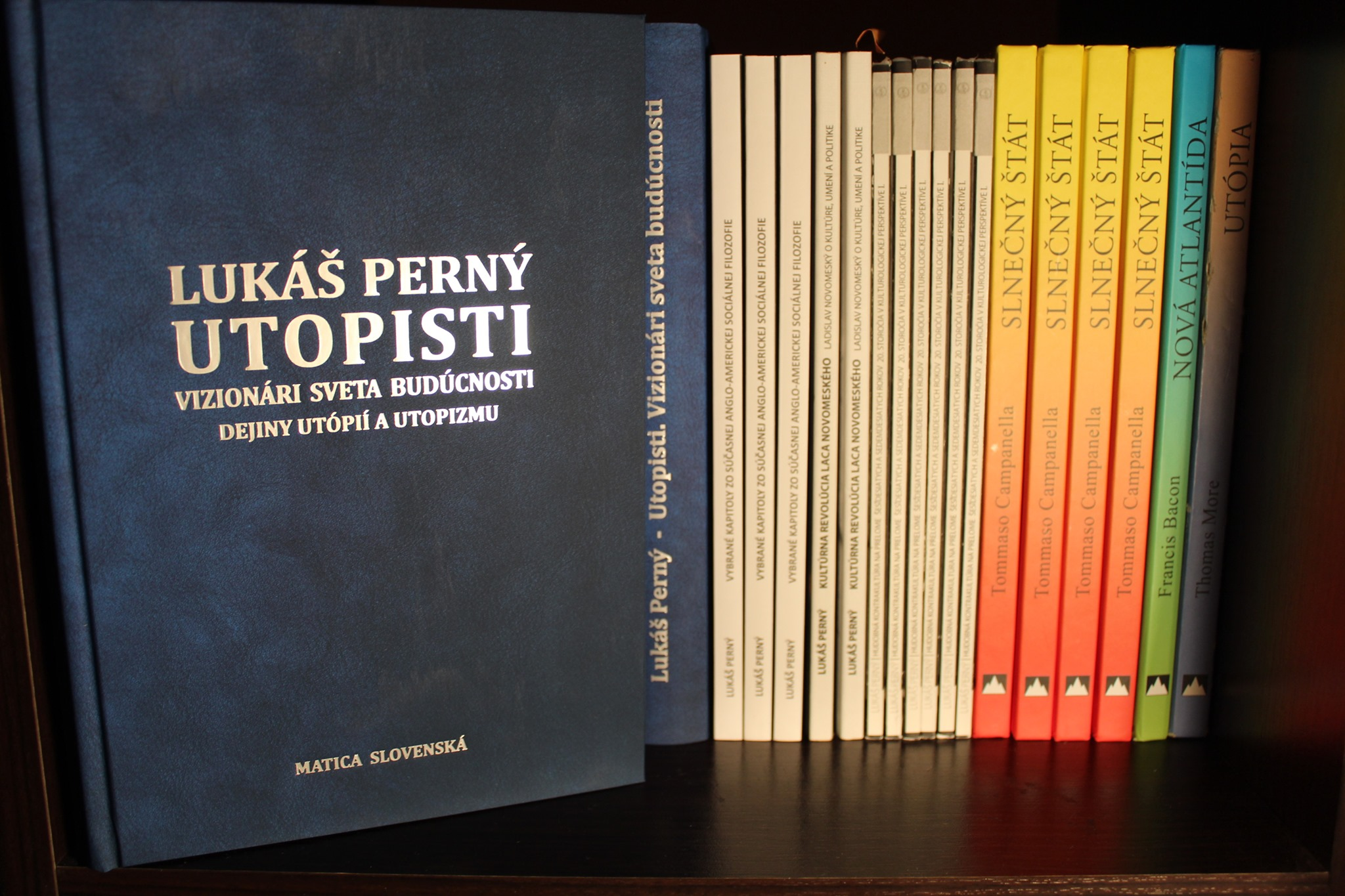 Utopians and other books by Lukáš Perný